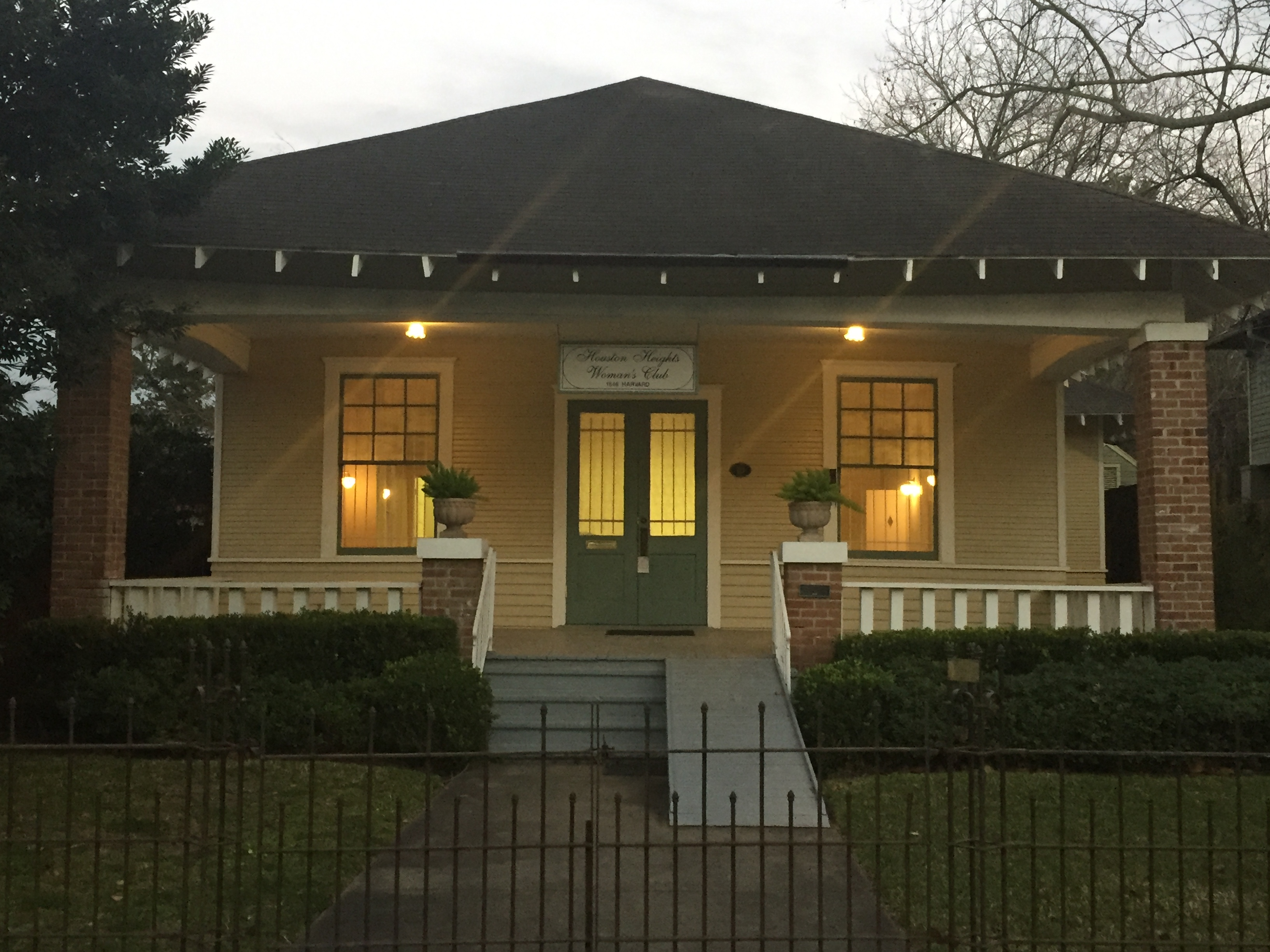 This file shows the facade of the clubhouse belonging to the Houston heights woman's club